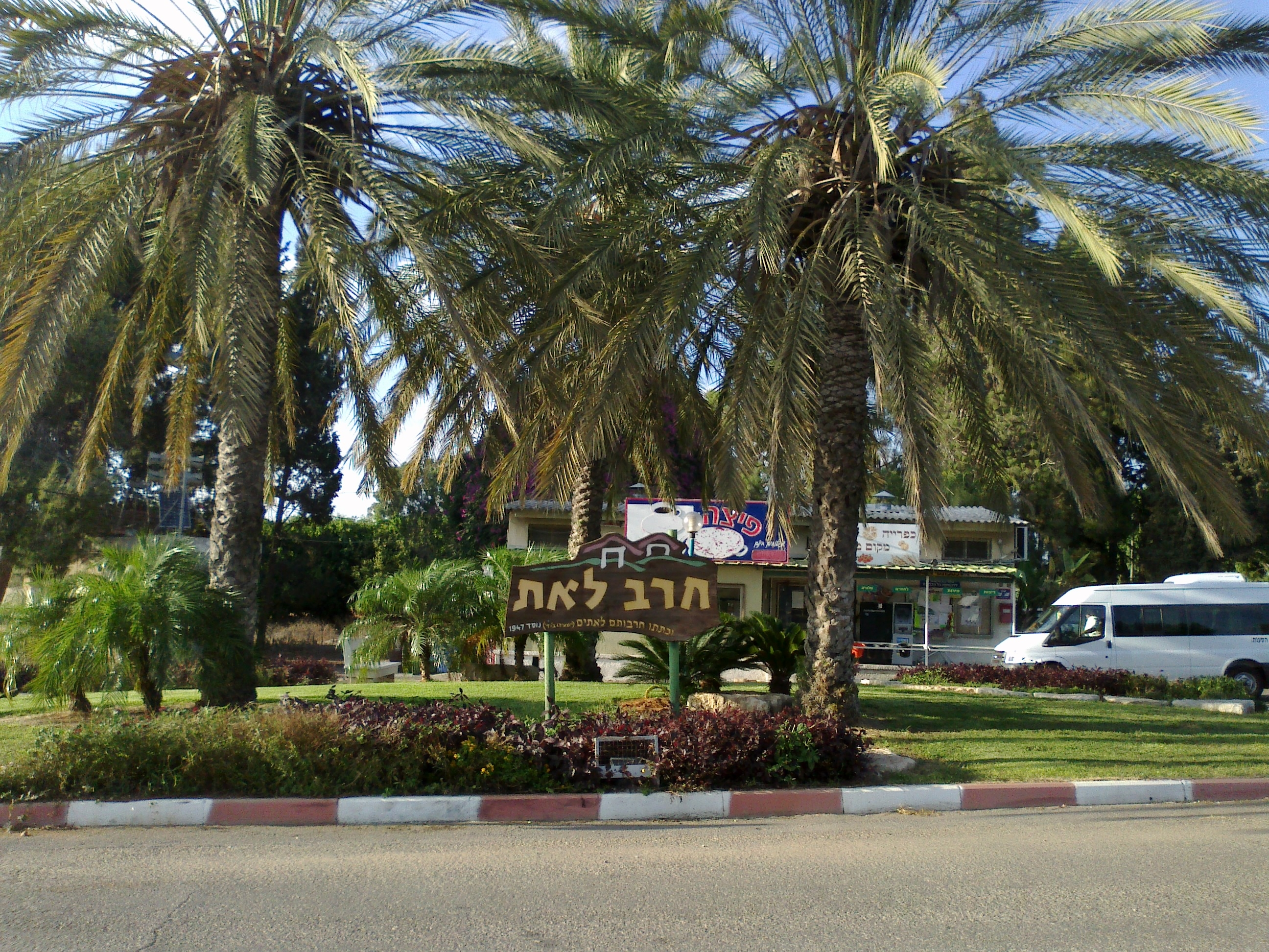 Herev Le'et חרב לאת